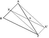 Triangle ΑΒΓ